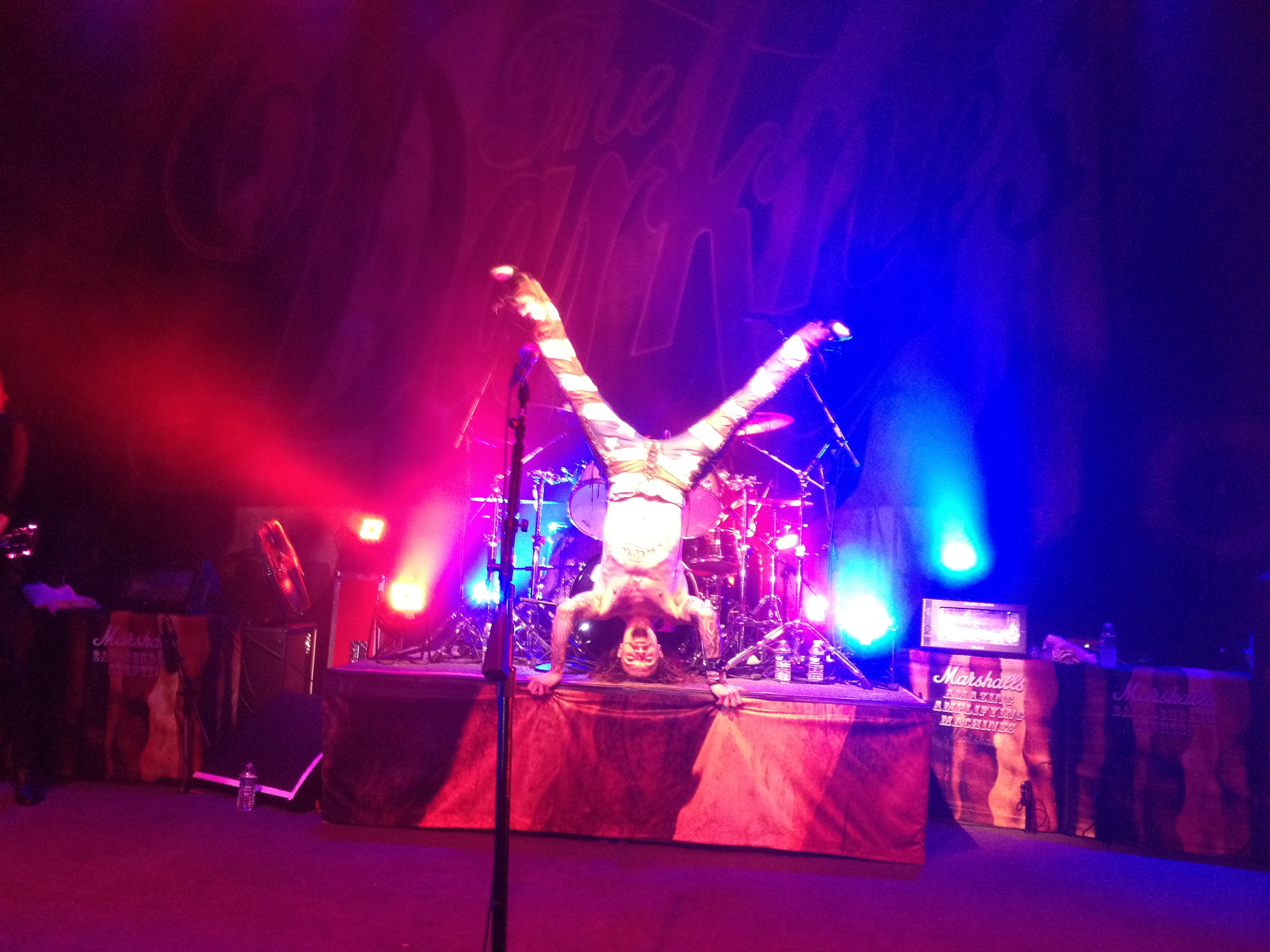 The Darkness performs at the 9:30 Club in Washington, DC as part of their reunion tour in February 2012